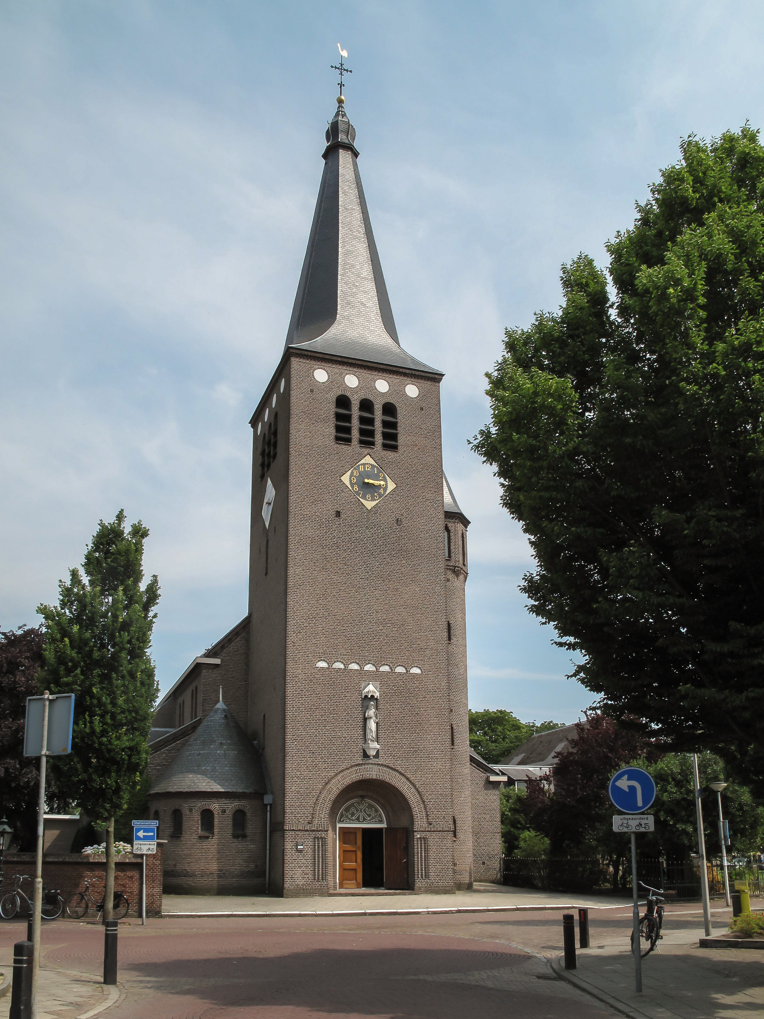 Wierden, church - Wierden, Stationsstraat 20 - Johannes de Doper